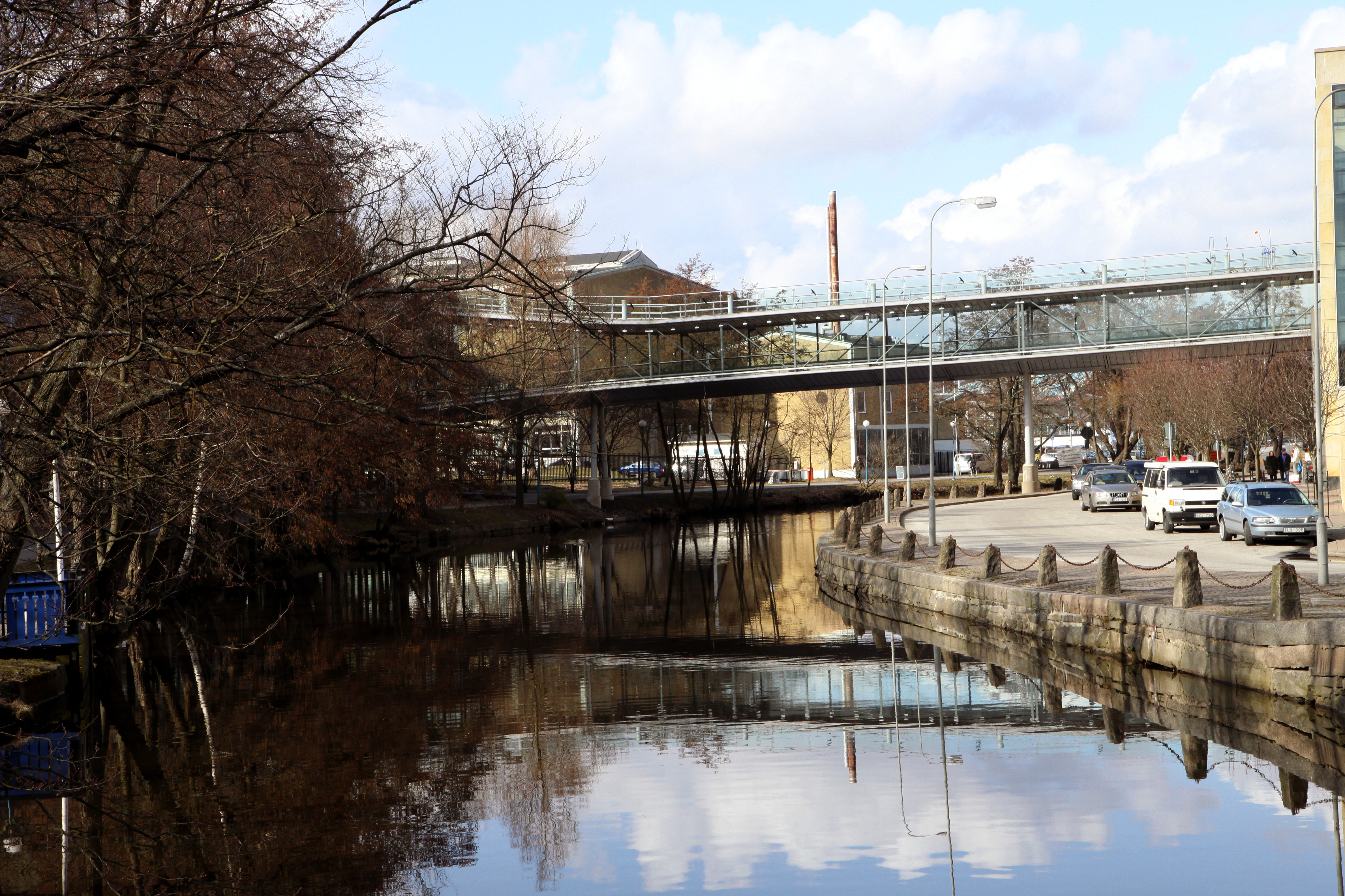 Mölndalsån in Gothenburg, running under Örgrytevägen and past Svenska mässan.